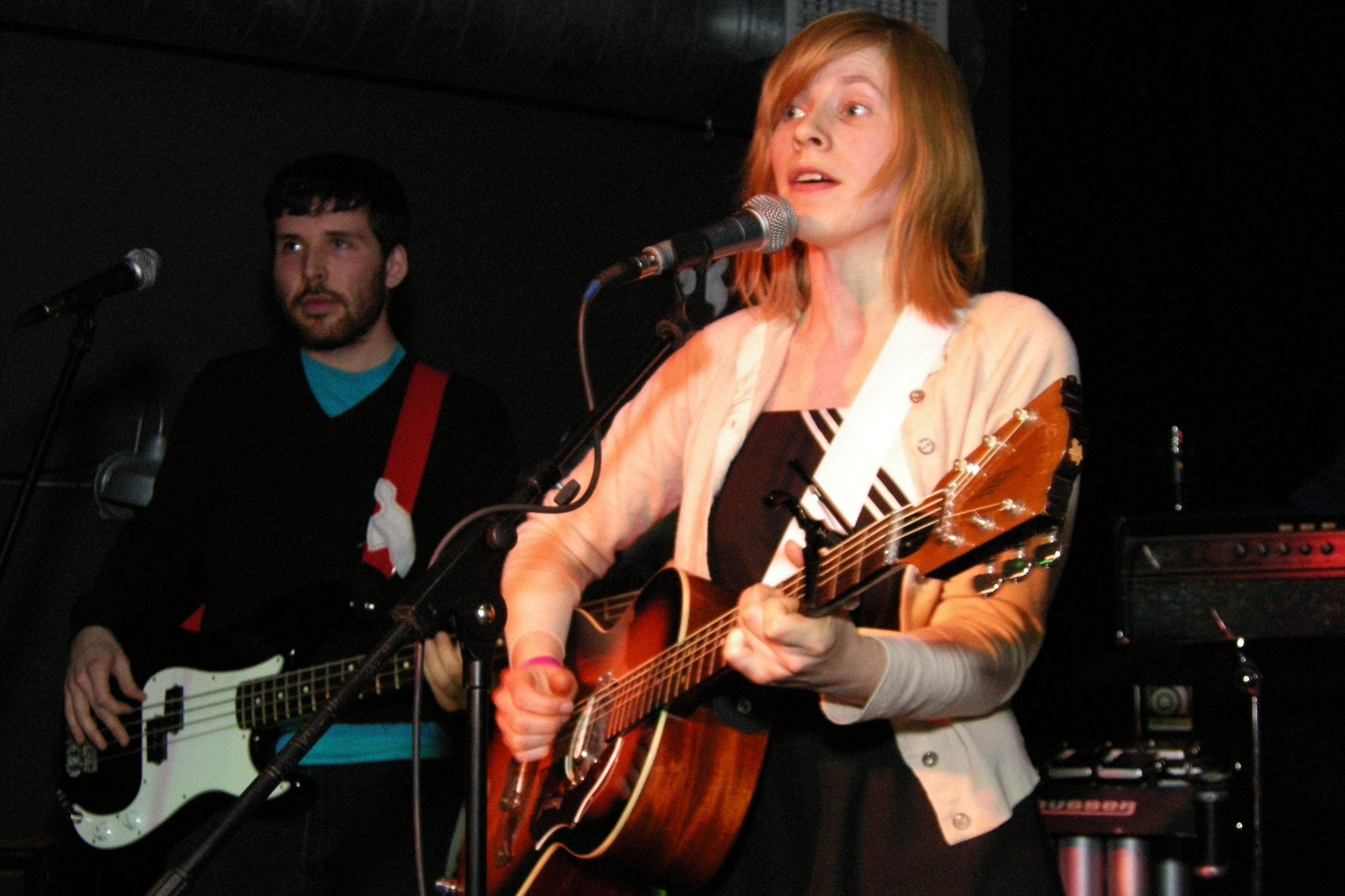 Kat Burns (right) and Kyle Donnelly of the Forest City Lovers, performing on 13 March 2008 at a CD release at the E-Bar in Guelph, Ontario.